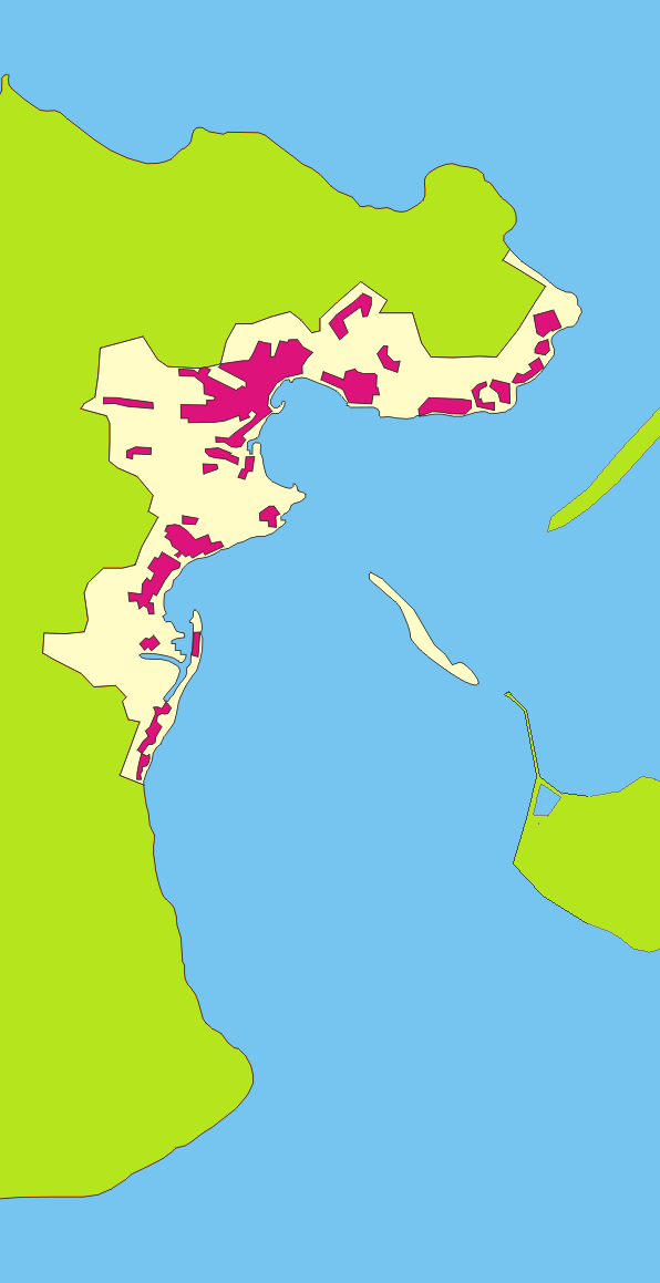 Location of the city of Kerch and Kerch municipality — in eastern Crimea. On the eastern Kerch Peninsula, along the Strait of Kerch.